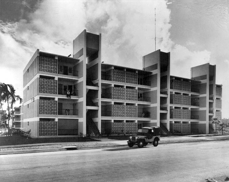 Martín Domínguez Esteban_1959-2-A-vista-1